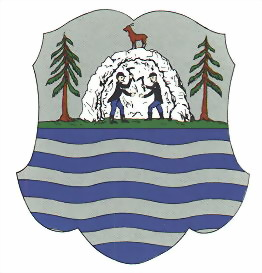 Coat of arms of county of Kingdom of Hungary